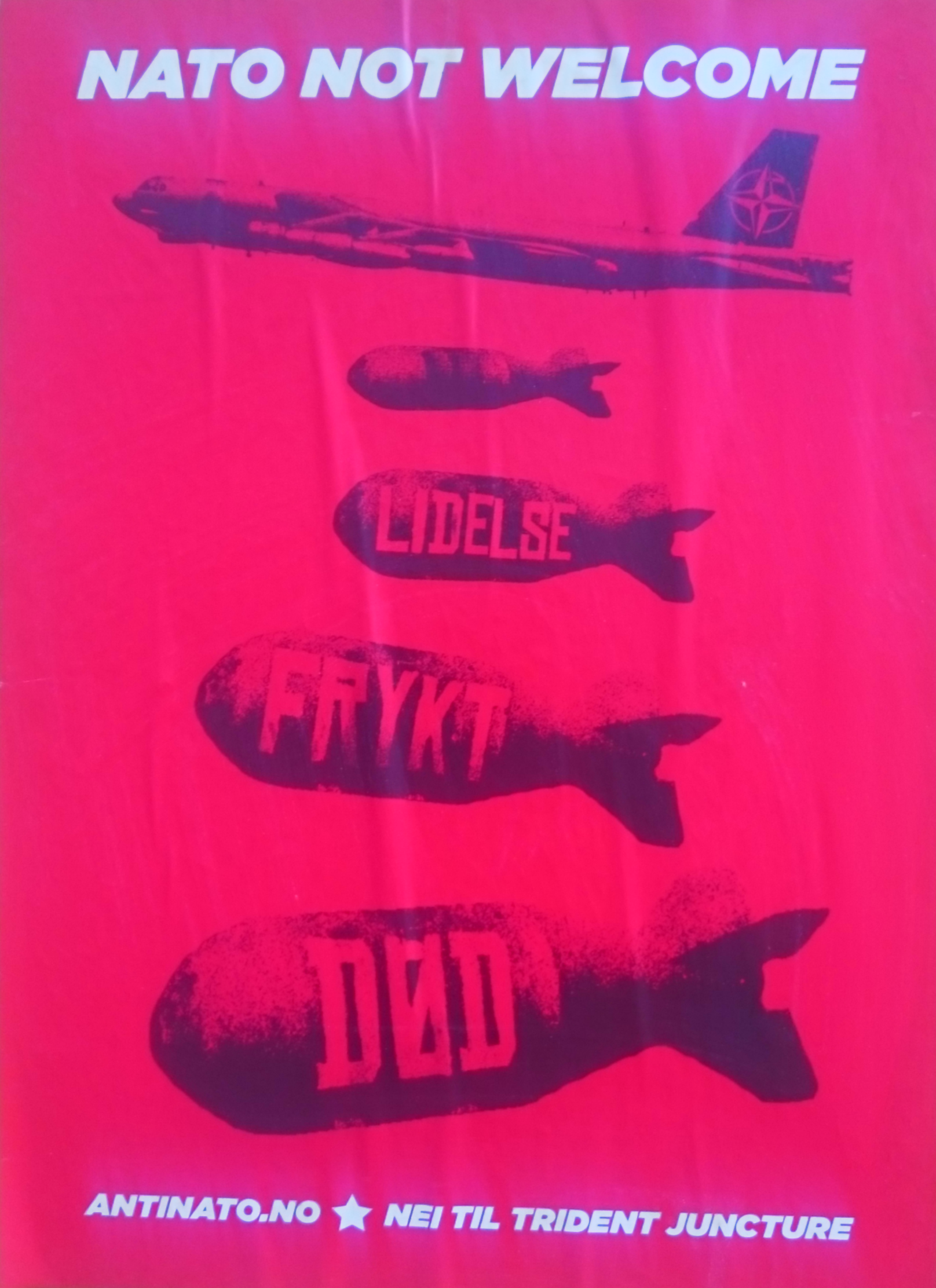 Norwegian protest poster against the NATO exercise "Trident Juncture 2018"